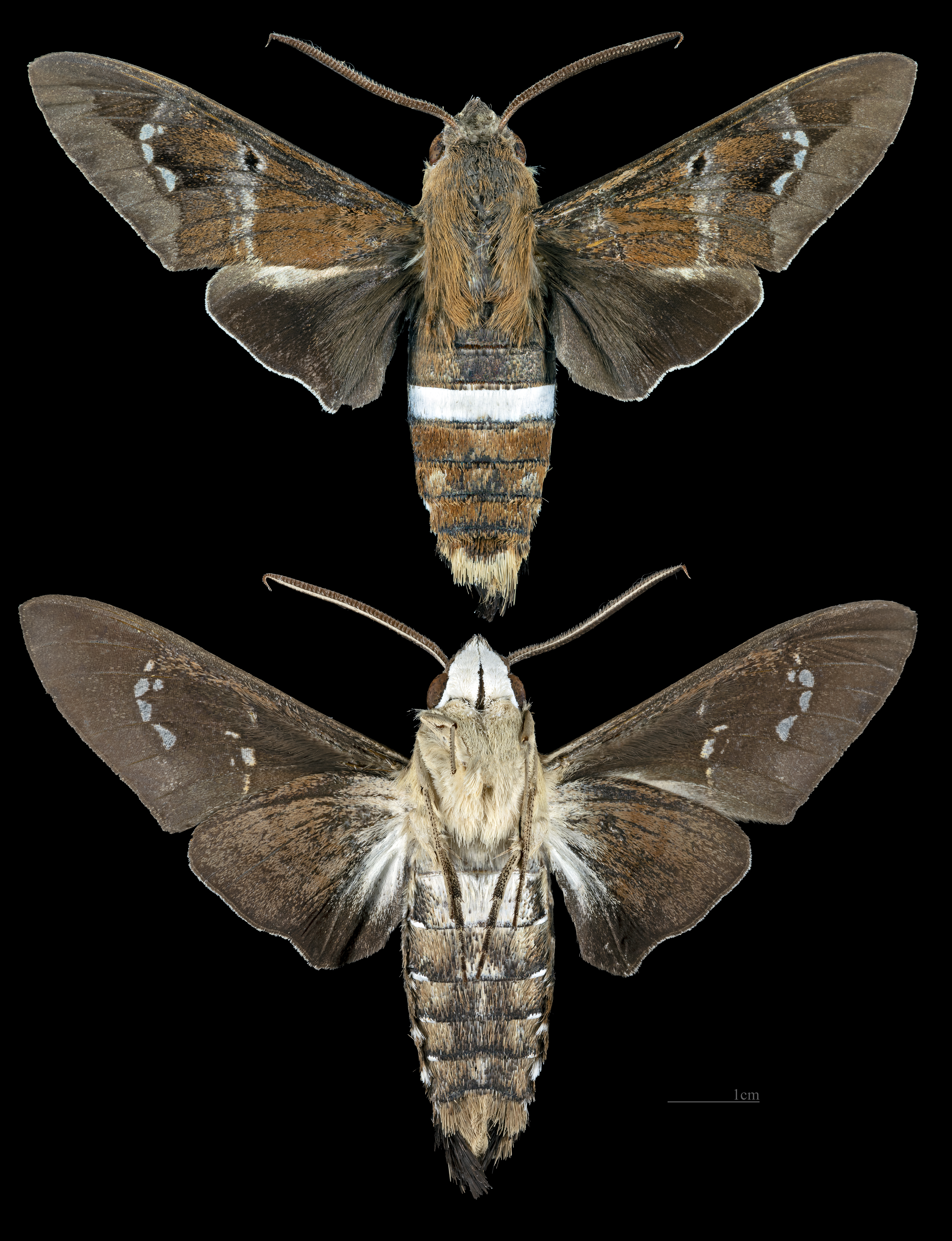 Aellopos clavipes - Two views of same specimen Collection of the Mathematician Laurent Schwartz